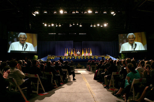 Caption: Pope Benedict XVI delivers remarks at a farewell ceremony at JFK Airport in New York on Sunday, April 20, 2008.